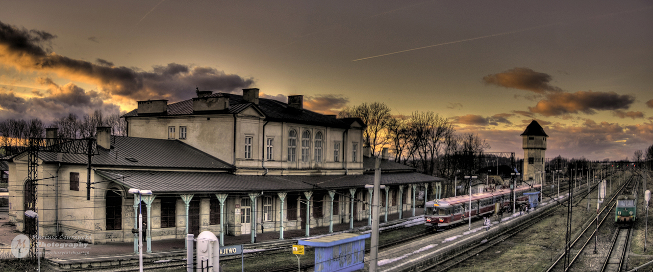 Train station in Grajewo